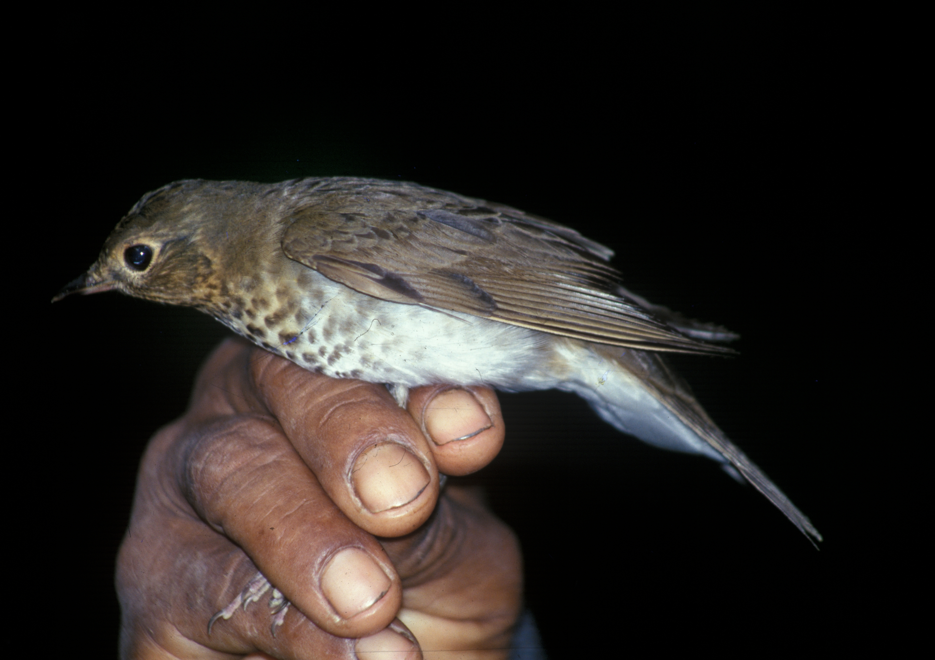 Swainson's Thrush (Catharus ustulatus) in Ecuador